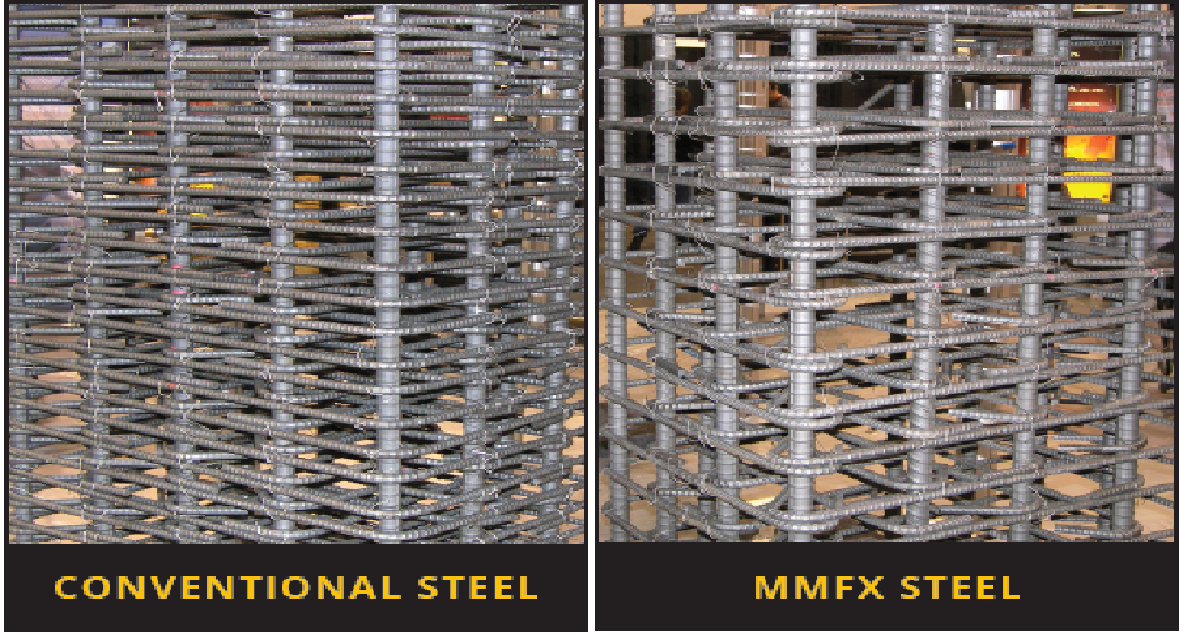 MMFX2 steel vs normal steel